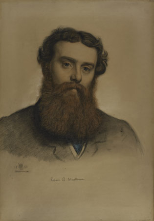 Robert Braithwaite Martineau by William Holman Hunt (1860). Black crayon and coloured chalk. Lady Lever Art Gallery